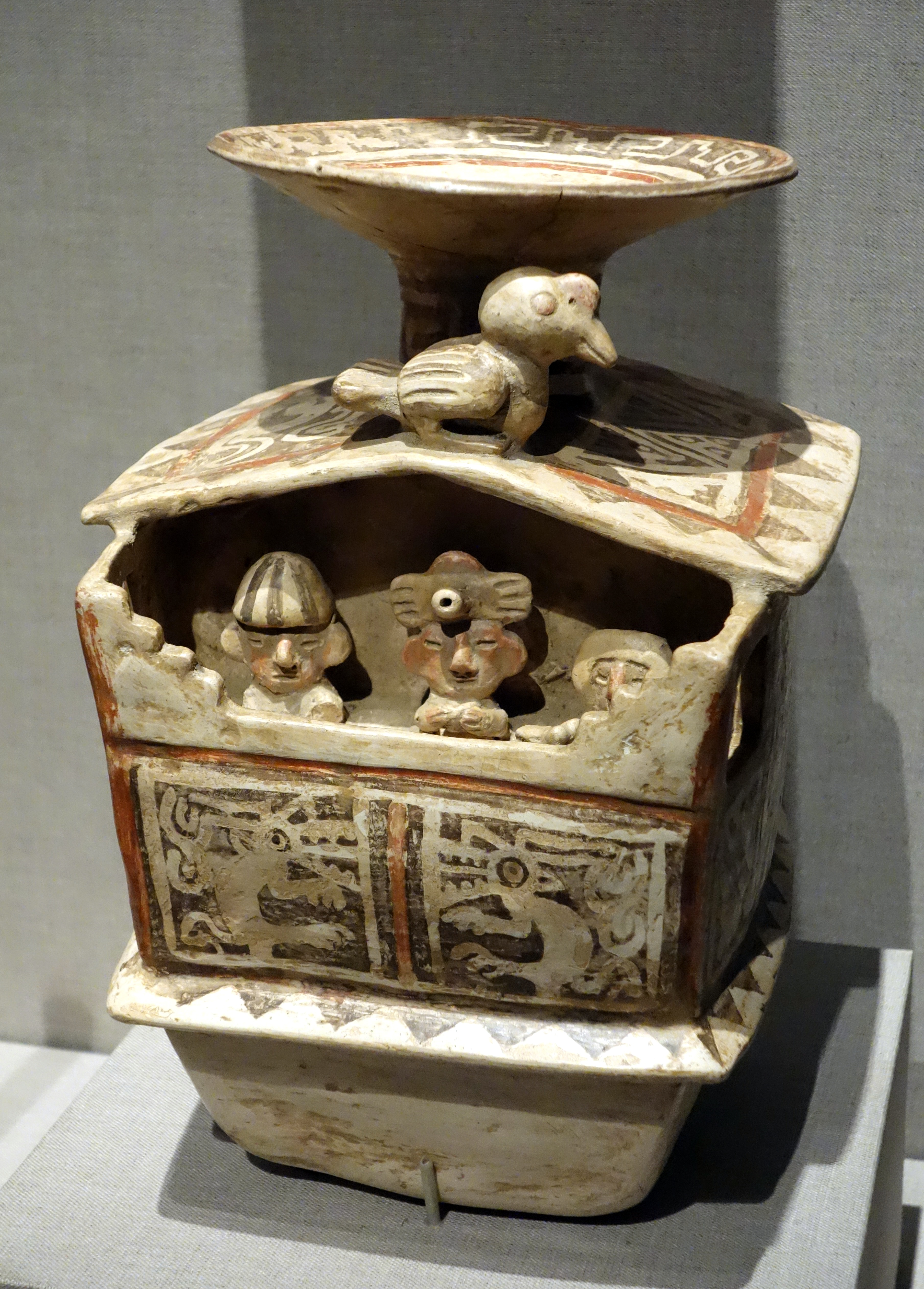 Exhibit in the De Young Museum, San Francisco, California, USA. This artwork is in the public domain because the artist died more than 70 years ago.